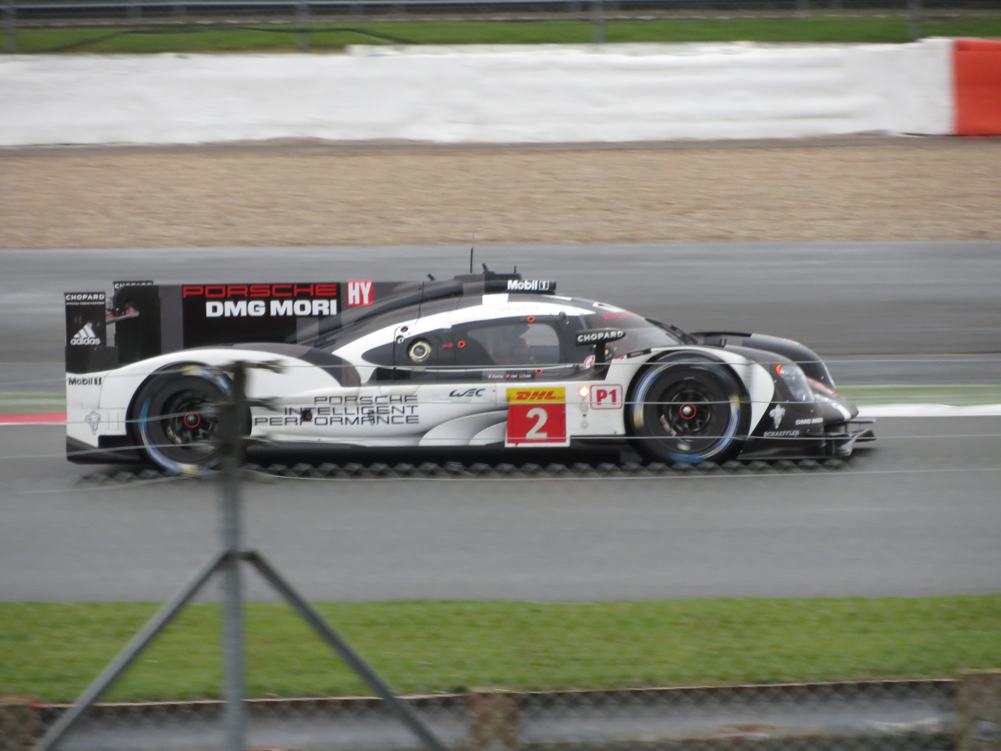 The n°2 Porsche 919 Hybrid at 2016 6 Hours of Silverstone, in England.